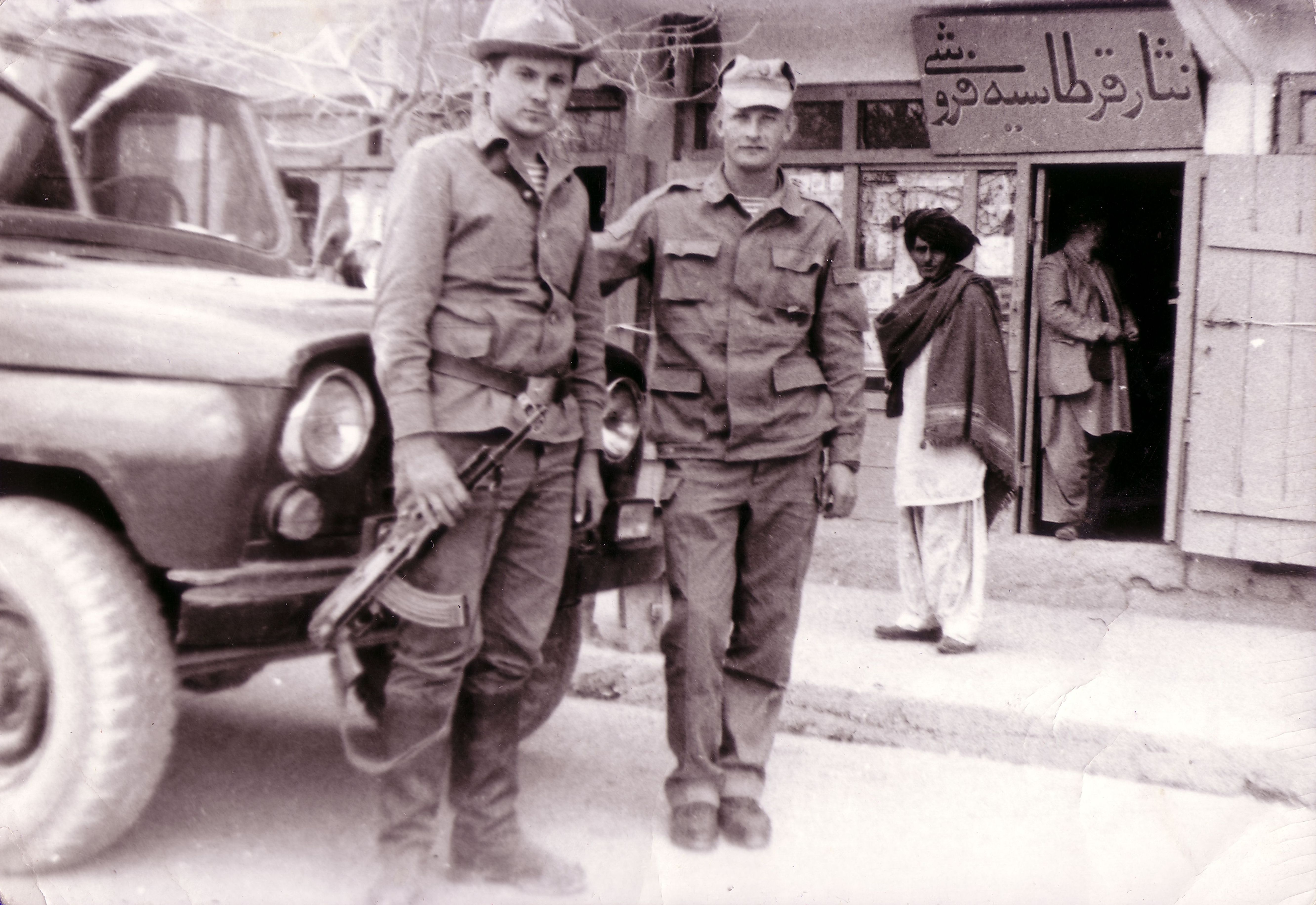 Soviet Army in Afgan, 1987. Gardez. UAZ-469